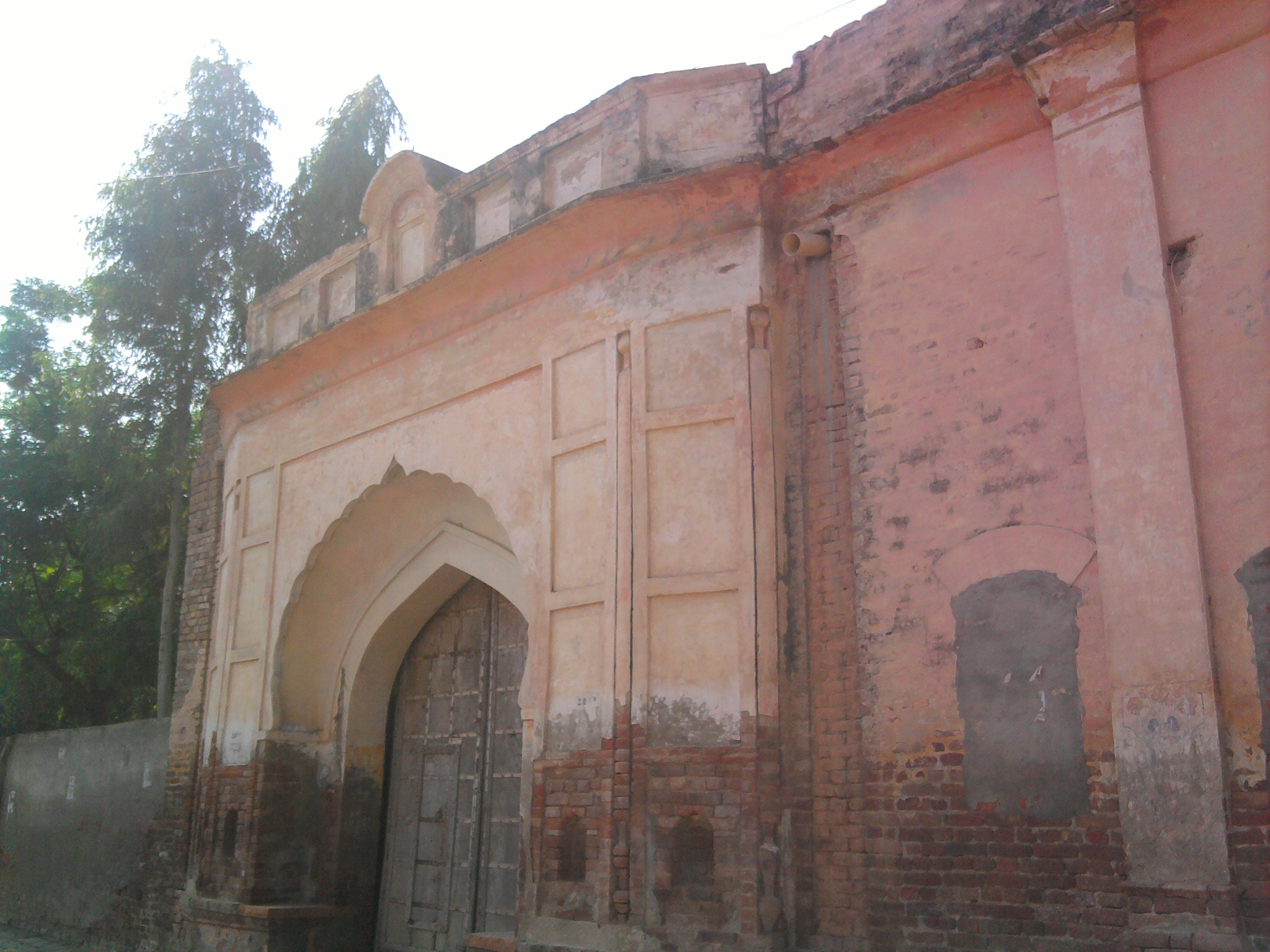 This photo is taken and uploaded by me for wikipedia.It show you a traditional Malwayi Punjabi architecture styled gateat Bhitwala village. User:Shemaroo Shemaroo (User talk:Shemaroo talk) 14:41, 13 November 2013 (UTC) This photo is taken and uploaded by me for wikipedia.It show you a traditional Malwayi Punjabi architecture styled gateat Bhitwala village. Shemaroo (talk) 14:41, 13 November 2013 (UTC)